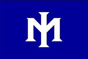 Logo of the "Isleña Marítima" company, old spanish company of travelling ferries.